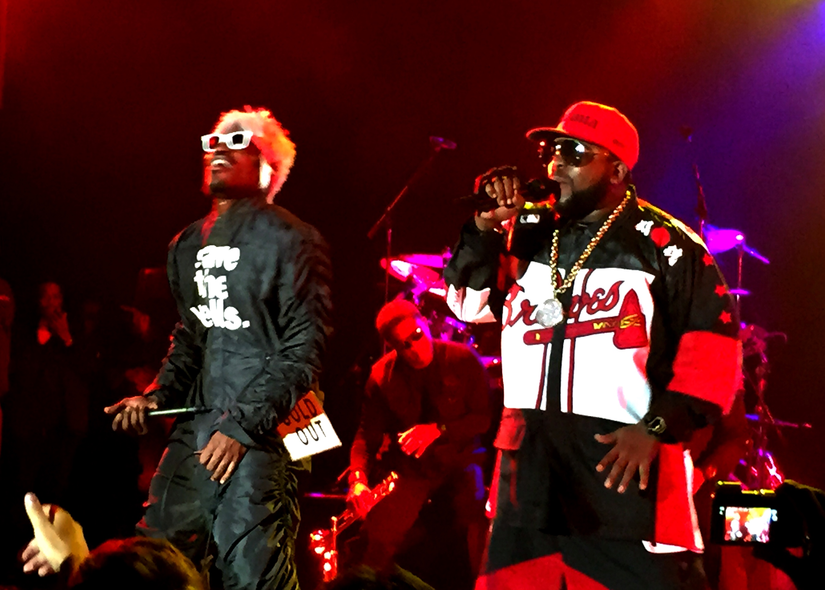 Andre 3000 and Big Boi performing at the Best Buy Theater in Times Square New York for the Advertising Week party.